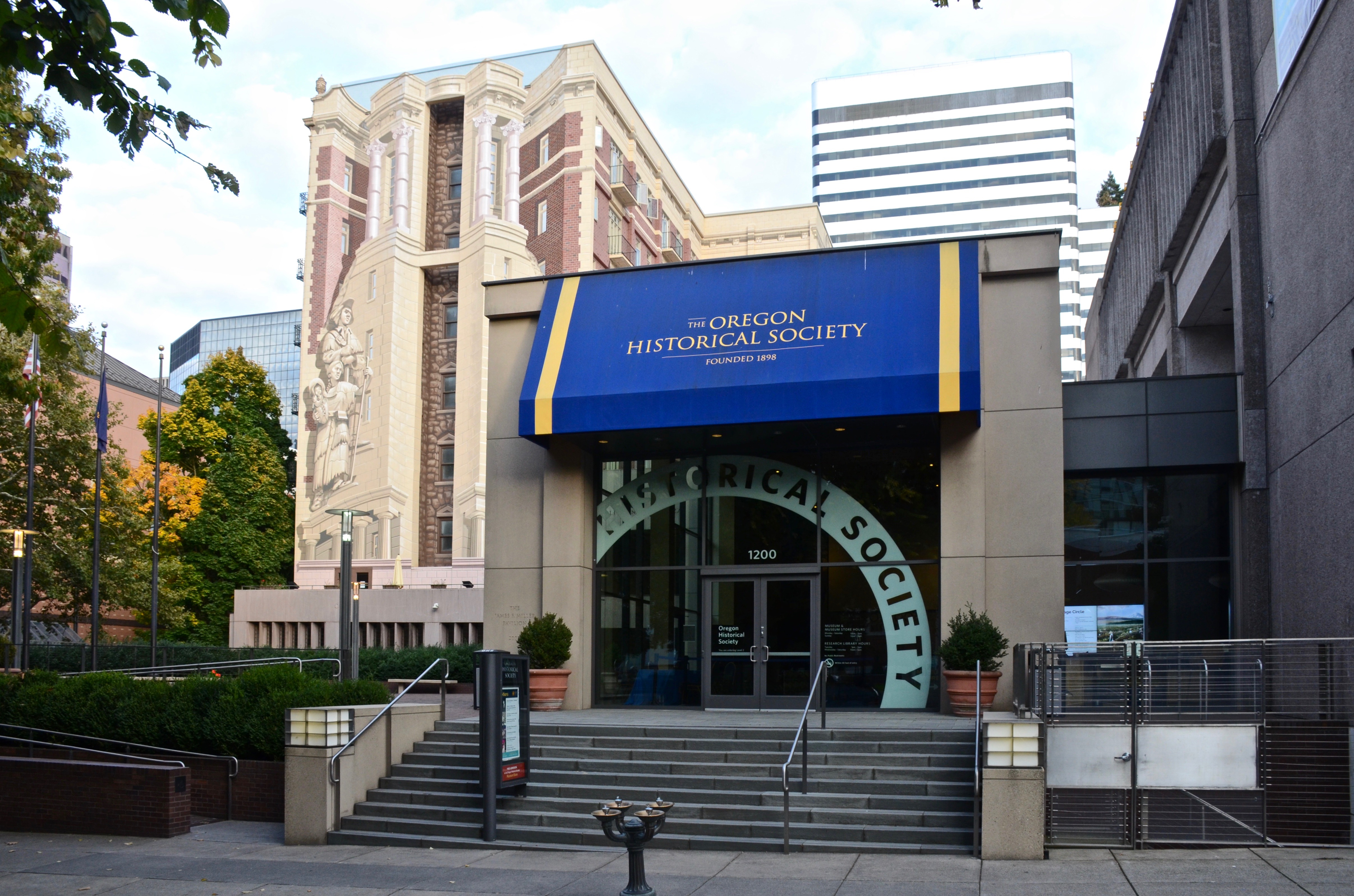 The entrance to the Oregon Historical Society's headquarters and museum, on Park Avenue in downtown Portland. In the background are the Sovereign Hotel building (a former hotel building which until 2014 was also owned by the historical society), with large mural, and – two blocks away – the comparatively modern PacWest Center.